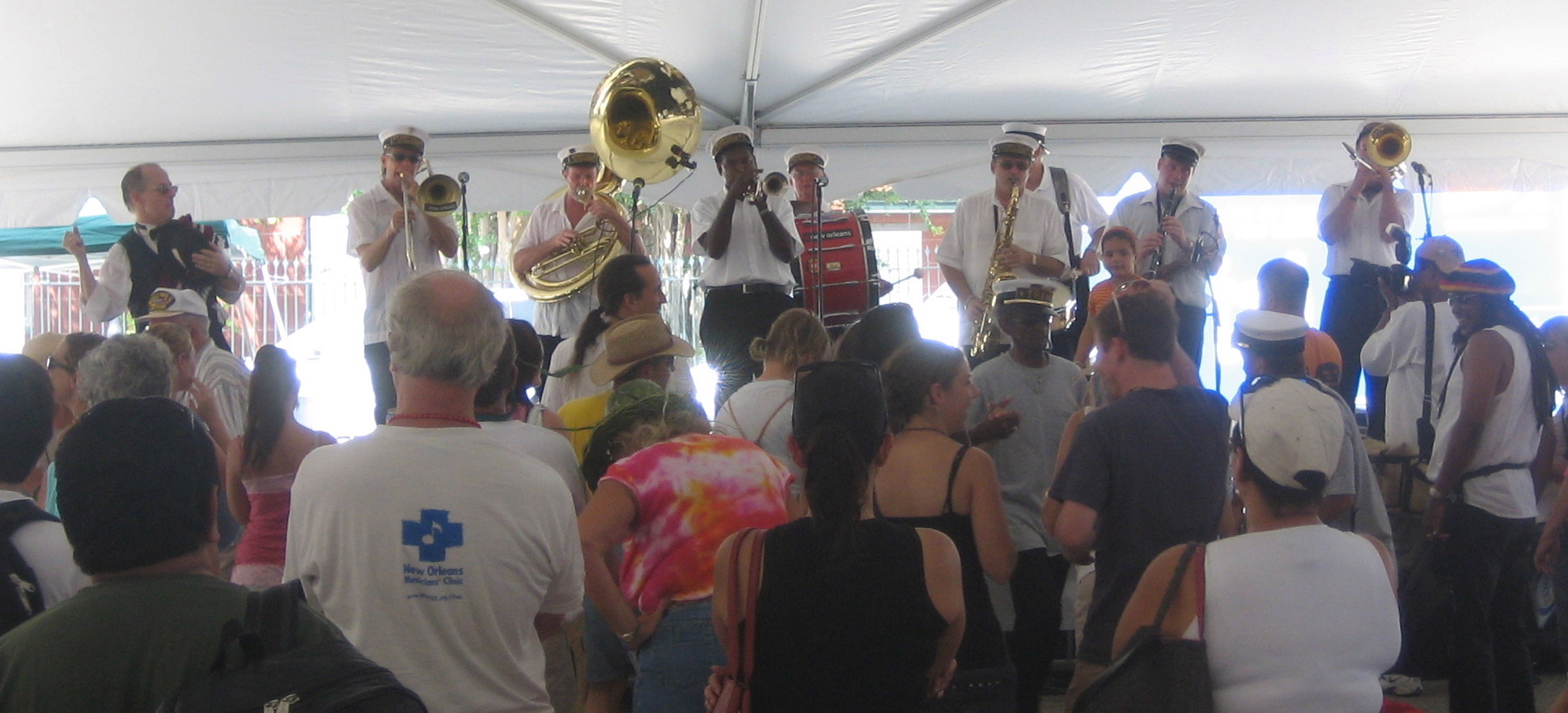 New Orleans: Music at Satchmo SummerFest, 2006. Storyville Stompers perform in a tent at the French Market.